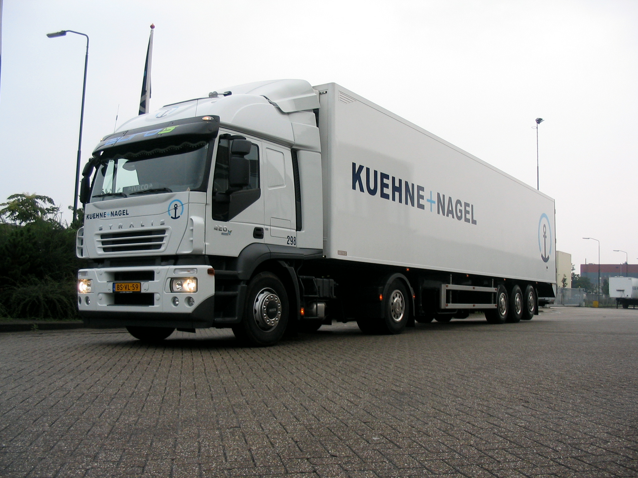 K+N Iveco Stralis AT 420 Euro 5